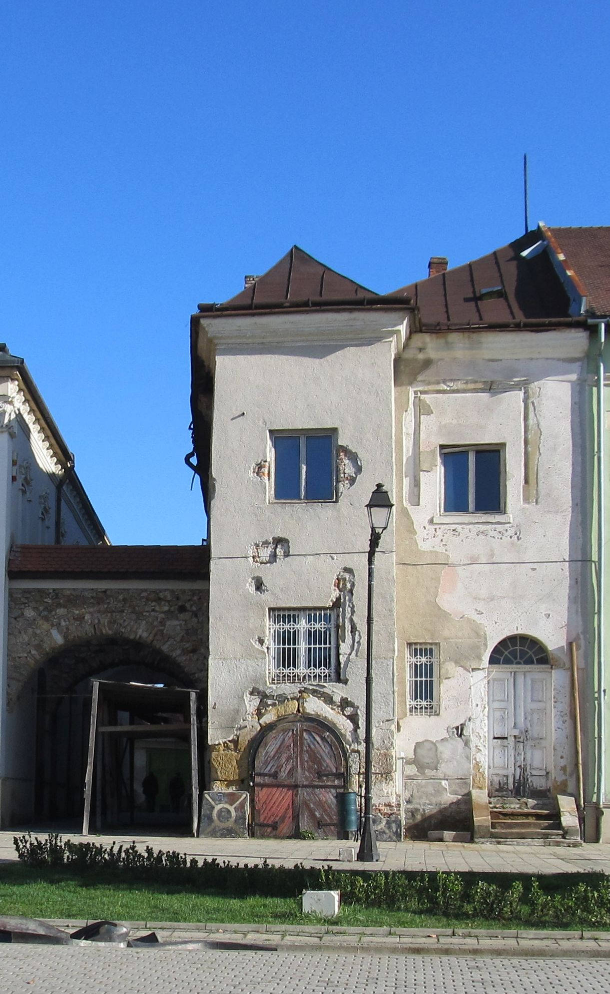 John Hunyadi house in Baia Mare, Maramureș county, Romania.